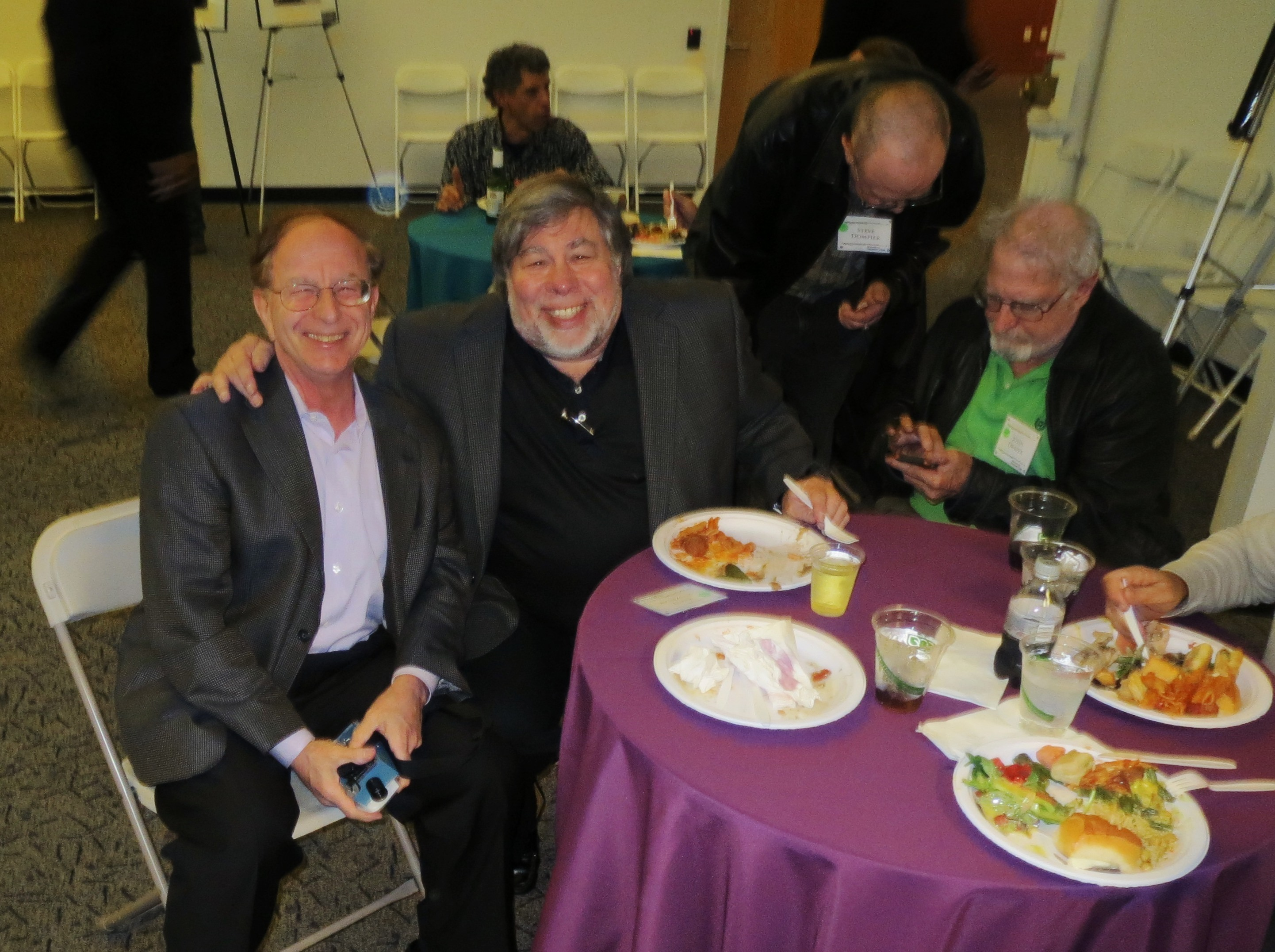 Harry Garland and Steve Wozniak at the reunion of the Homebrew Computer Club, November 11, 2013. Also shown are Steve Dompier and John Draper.